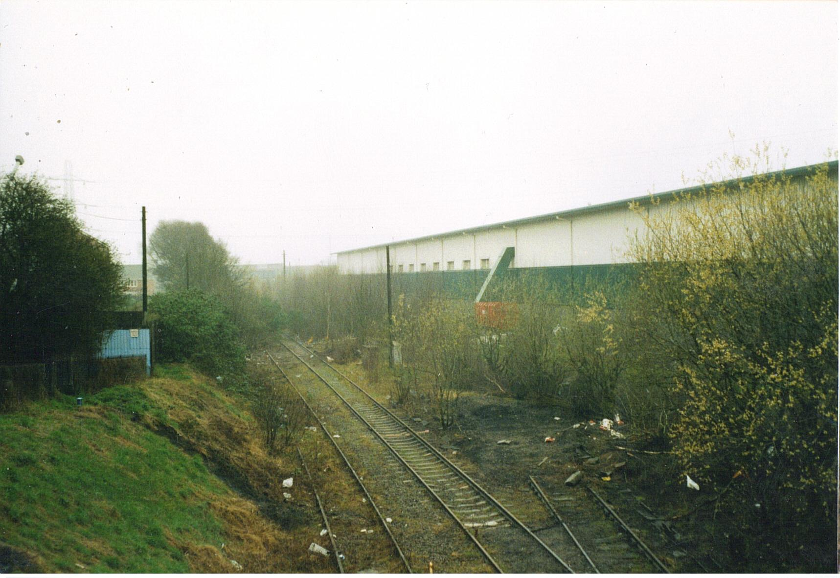 Gt. Bridge St. N. (Great Bridge North) station in 2005. Note that when the line was cleared by workmen it revealed the remnants a bay platform or just a siding by the pile of black stuff, who's line was apparently once longer and had been used to stable a few railway maintenance trains and odd carriage up until the late 1980's.